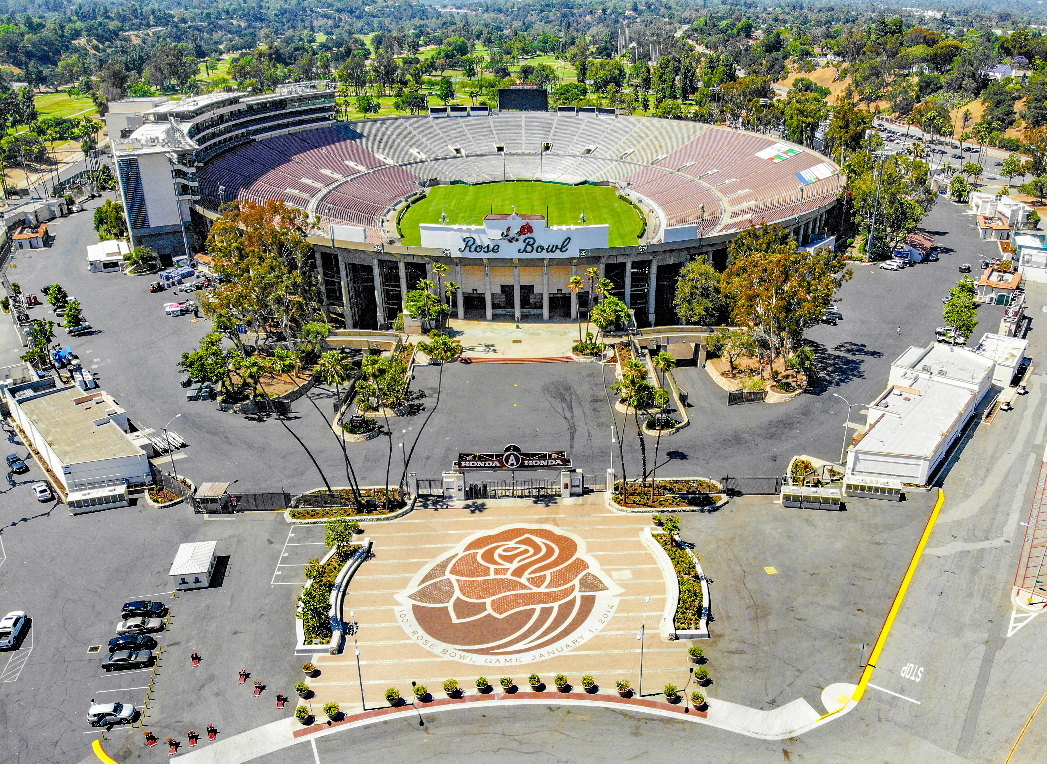 Rose Bowl, Lot H, in Pasadena, California, is one of the few places in the United States where you can fly a drone legally.